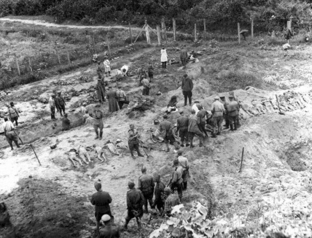 At the site of Nazi concentration camp "Janowska" in Lviv, western Ukraine. Photo from 1944 - Soviet extraordinary commission researches the crimes of German Nazis at Janowska concentartion camp (Lviv, west Ukraine) and mass graves adjoining the camp. Janowska was a Nazi German labor, transit and concentration camp established September 1941 in occupied Poland on the outskirts of Lwów (Poland, today Lviv in Ukraine). The camp was labeled Janowska after the nearby street's name ulica Janowska, nowadays Shevchenka street (Ukrainian: Вулиця Шевченка). Notable inmates of Janowska camp: Adolf Beck, Polish physiologist Emanuel Szlechter, Polish screenwriter and lyricist Simon Wiesenthal, Nazi hunter